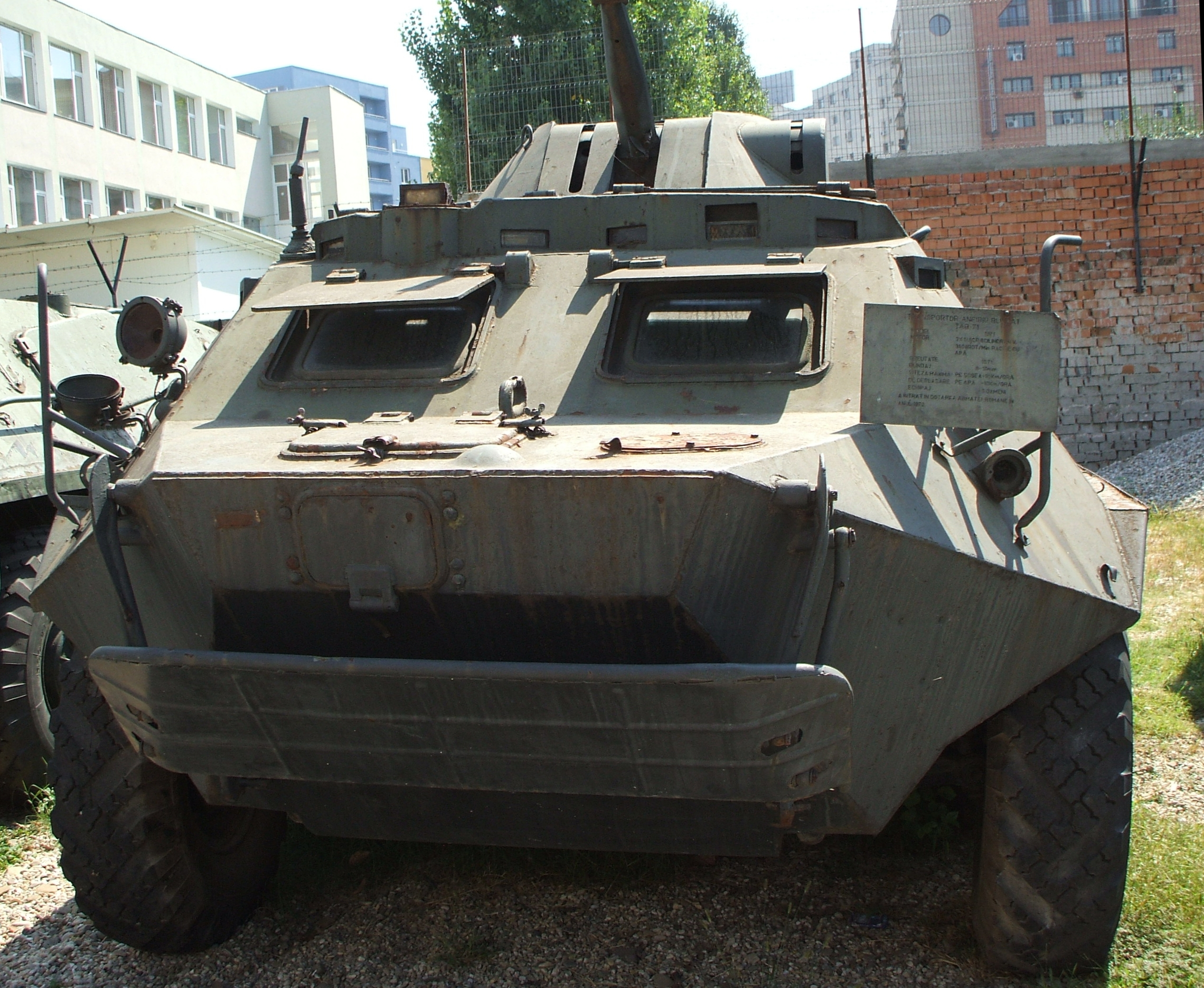 A Romanian TAB-71 APC on display at "King Ferdinand" National Military Museum.